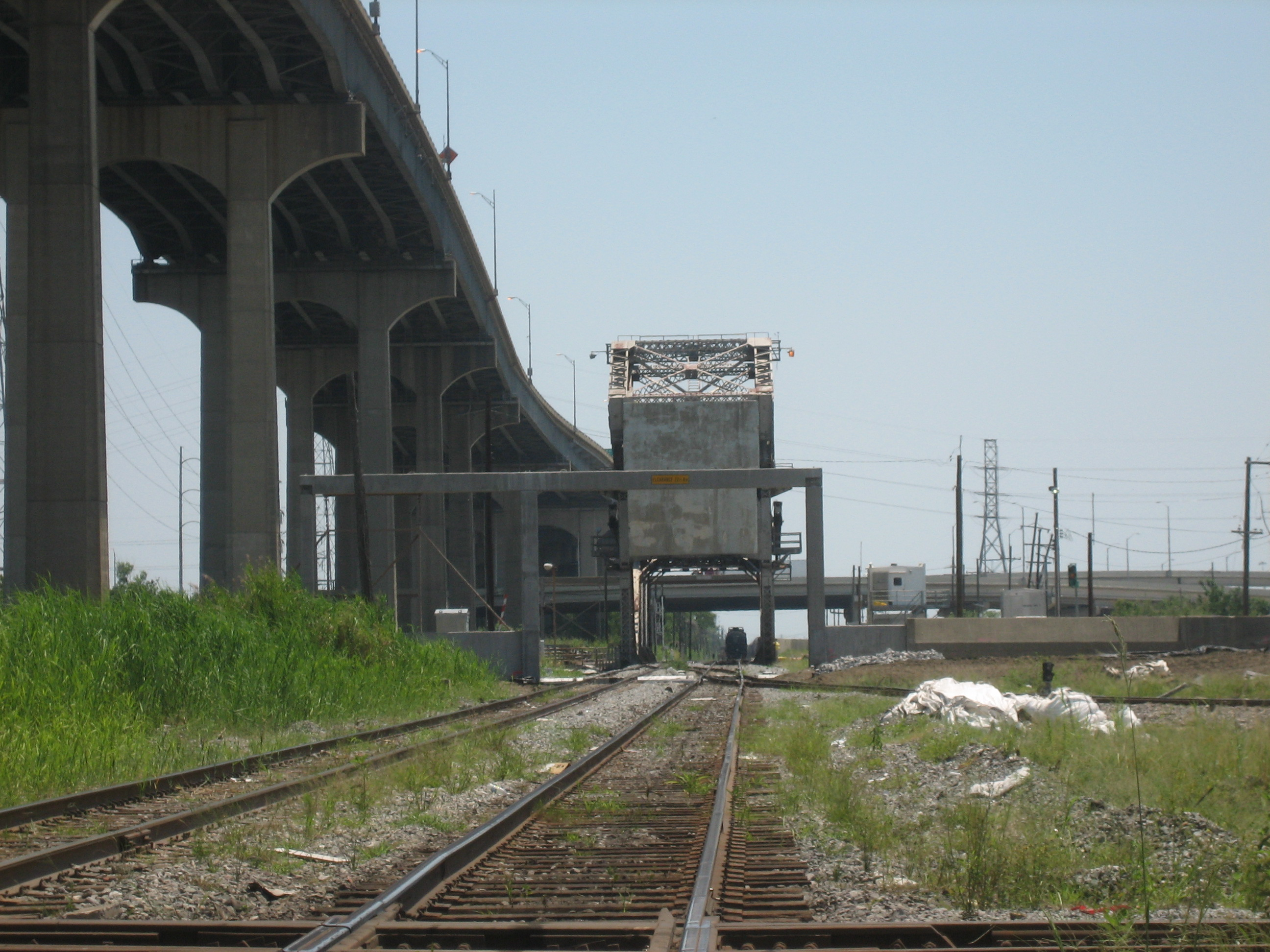 New Orleans: Industrial Canal Floodgate W 30. The floodgate here at the L&N railroad bridge over the Industrial Canal was not properly closed in advance of Hurricane Katrina, and was one of the first places where flooding came in to the bulk of the city west of the Industrial Canal. Given the multiple levee breaches which would soon after flood the majority of the city, it is not clear how much this contributed to the disaster. To left is the Interstate 10 high rise bridge. Photo by Infrogmation